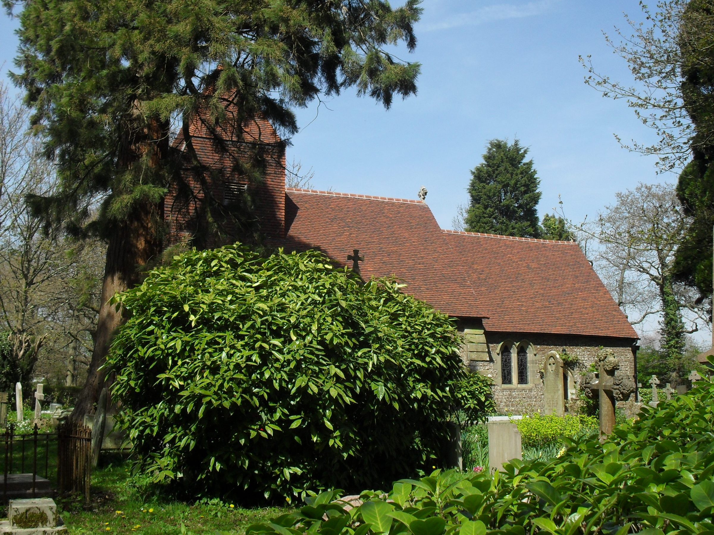 General view from behind the trees of St Leonard's Church (Church-in-the-Wood), Church in the Wood Lane, Hollington, Hastings, East Sussex, England. This is a restored 13th-century Anglican church in the middle of a wood and nature reserve in the Hollington area of Hastings. Listed at Grade II by English Heritage (Heritage Gateway Code 293741)